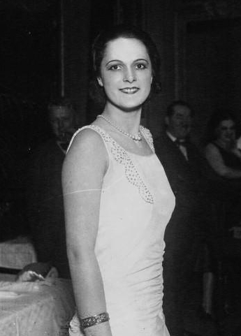 Yvette Labrousse, Miss France 1930, later known as Begum Om Habibeh Aga Khan after her marriage with Aga Khan III.